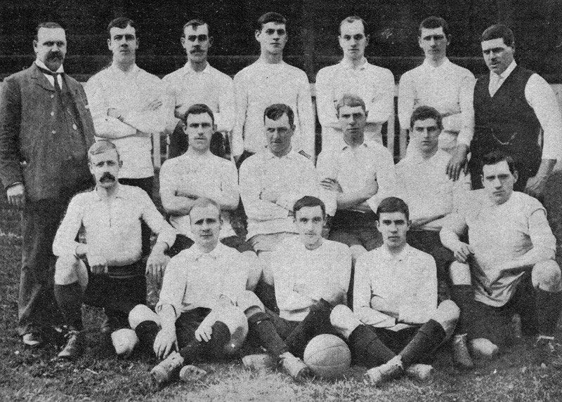 Team shot of the 1903-04 Bradford City A.F.C. squad